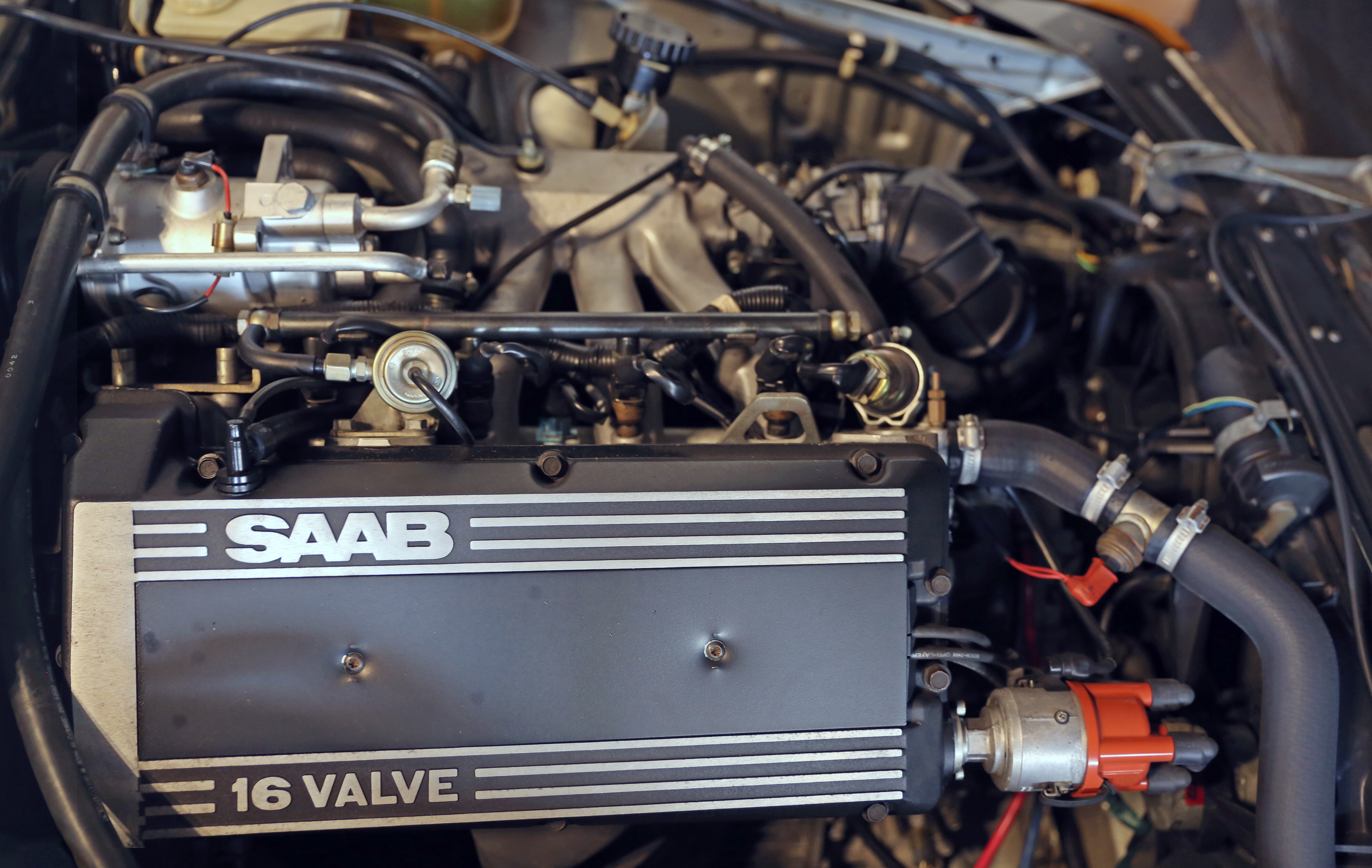 The naturally aspirated 2-litre 16 valve B202 engine (right-hand view) as seen in a 1986 Saab 900 three-door.